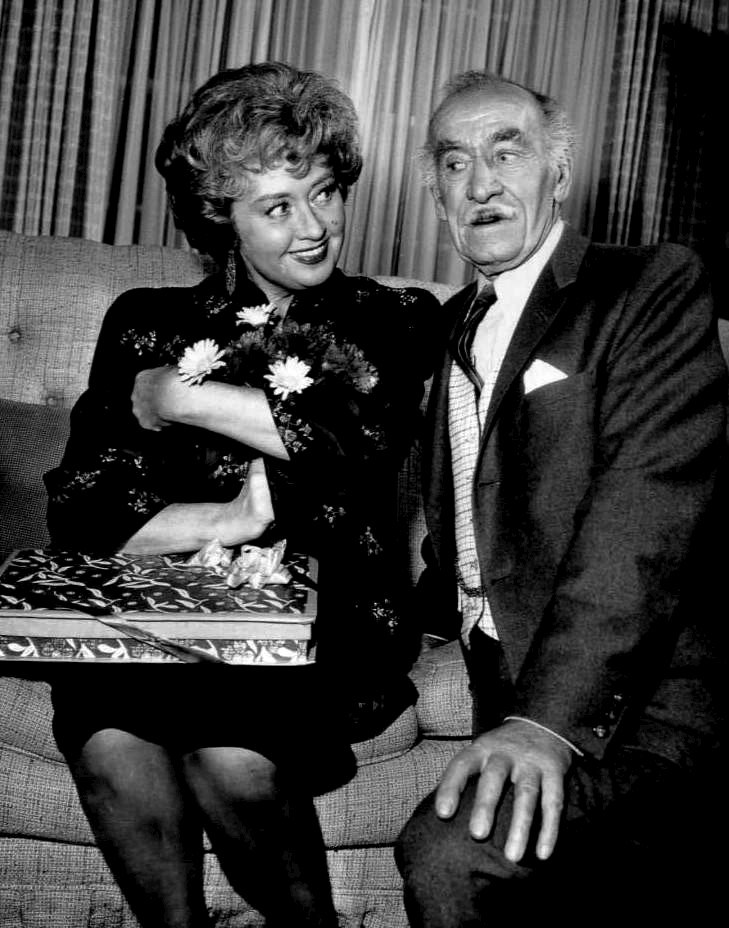 Photo of Joan Blondell and Andy Clyde from the television program The Real McCoys. Clyde was a regular on the television show, playing neighbor George McMichael, who was a contemporary of "Grampa Amos" McCoy. Blondell appeared in a guest-starring role as Aunt Win McCoy. In this episode, long time bachelor McMichael is charmed by the McCoy's Aunt Win.